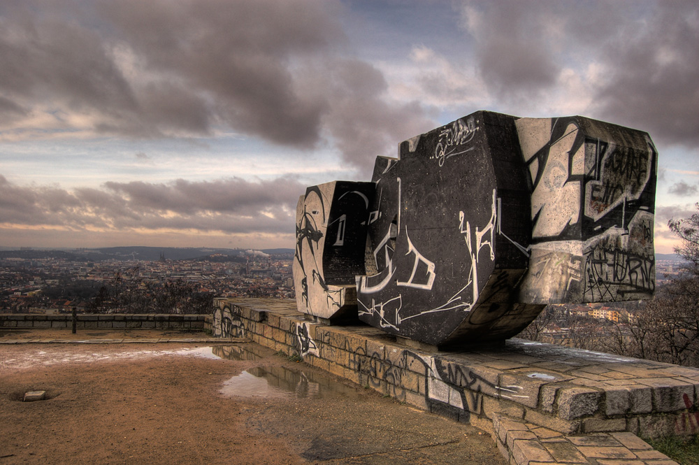 Monument of working-class movement at Bila hora (White Hill) in Brno, Czech Republic